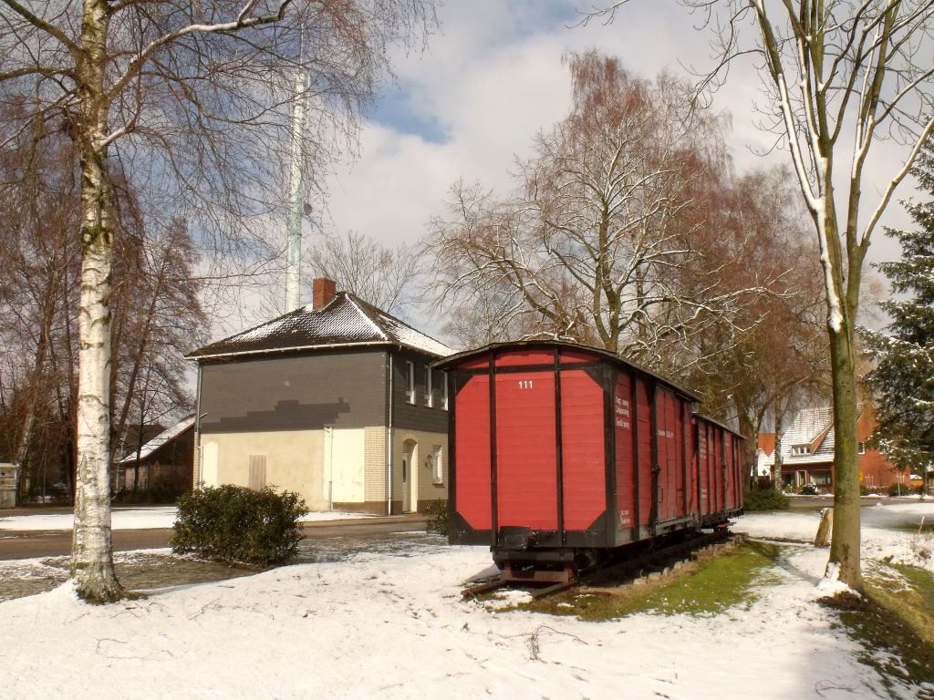 two freight cars in front of the former station in Berge (Lower Saxony) form a monument to the former narrow-gauge railway Lingen–Berge–Quakenbrück